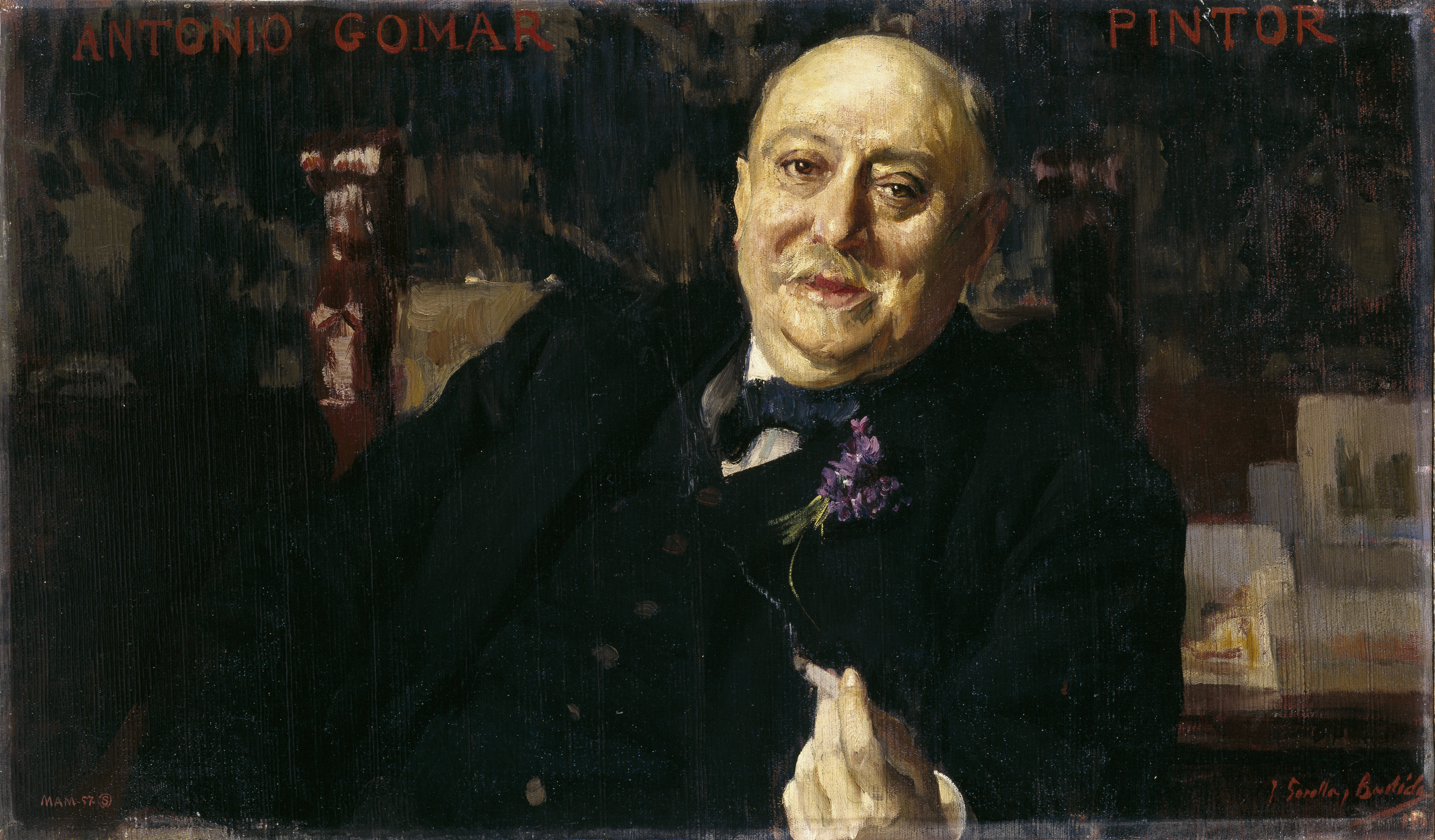 Portrait of Antonio Gomar y Gomar